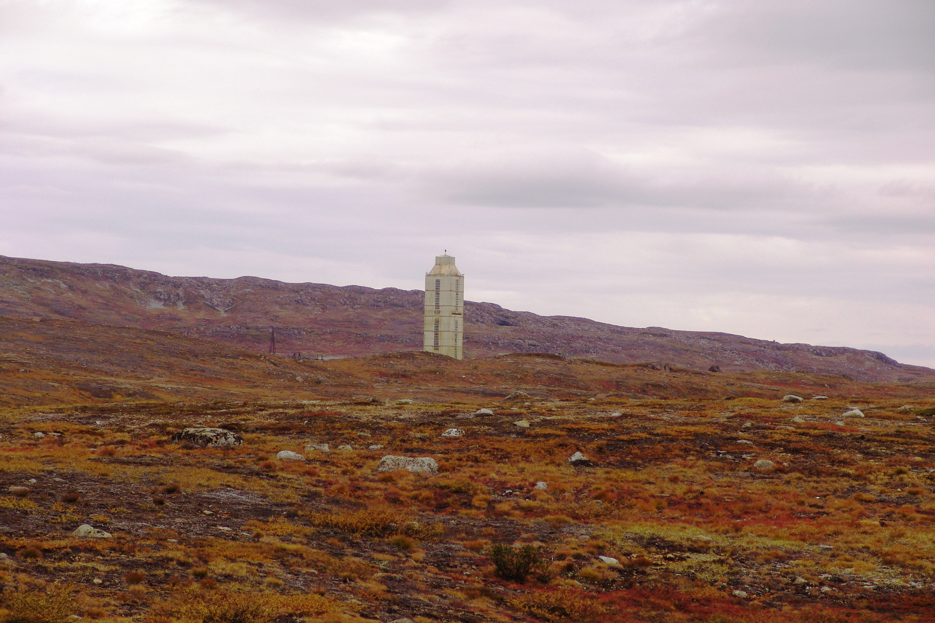 Kola Superdeep Borehole